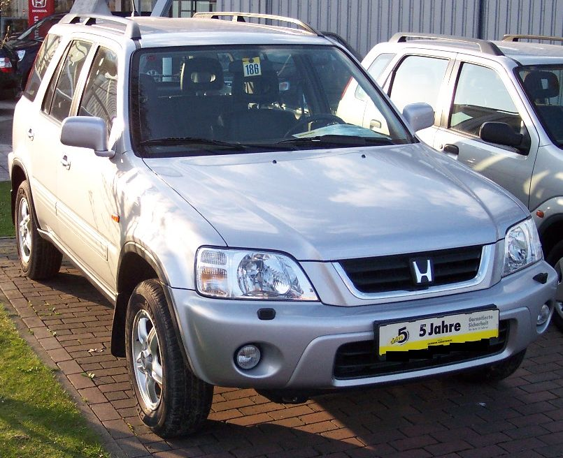 Honda CR-V